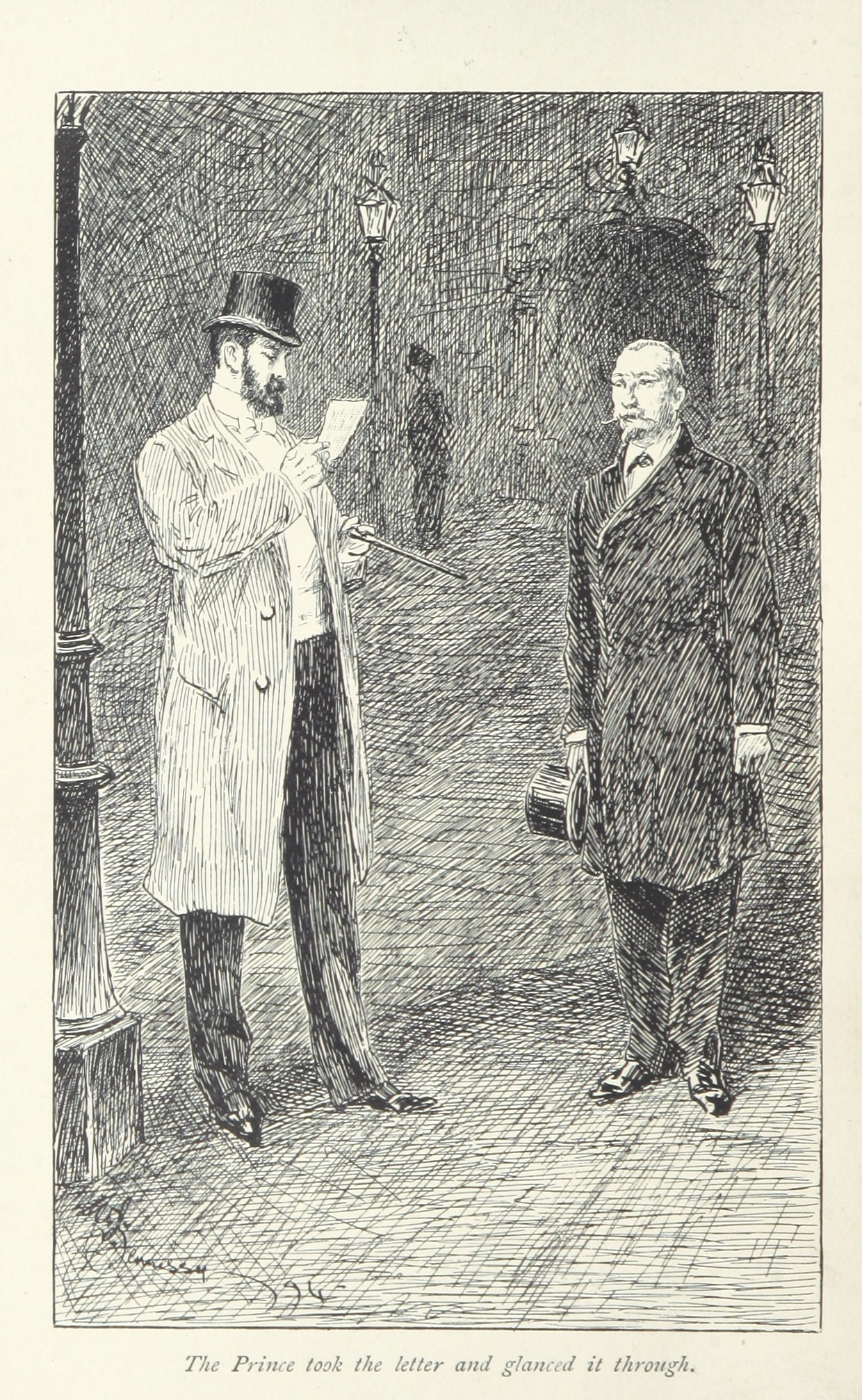 Image taken from: Title: "The Suicide Club and The Rajah's Diamond. ... A new edition, with eight illustrations by W. J. Hennessy. [Extracted from “New Arabian Nights.]", "New Arabian Nights" Author: Stevenson, Robert Louis Contributor: HENNESSY, W. J. Shelfmark: "British Library HMNTS 012621.h.3." Page: 296 Place of Publishing: London Date of Publishing: 1894 Publisher: Chatto & Windus Issuance: monographic Identifier: 003501454